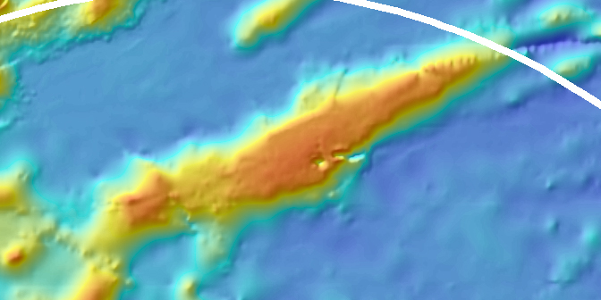 Bathymetry of Horizon Guyot